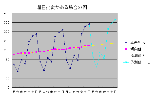 Example graph of time-series estimation by Ratio to Moving Average Method (Case of cyclic perturbation in days of a week)